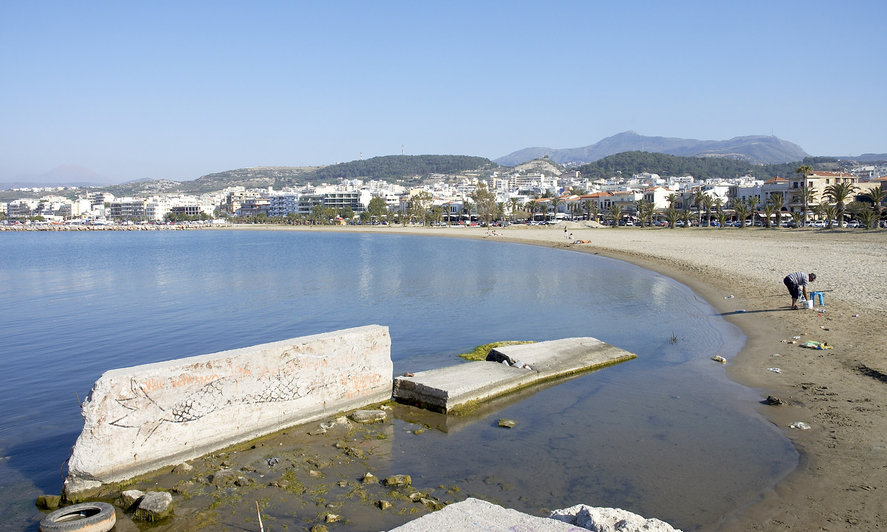 Rethymno